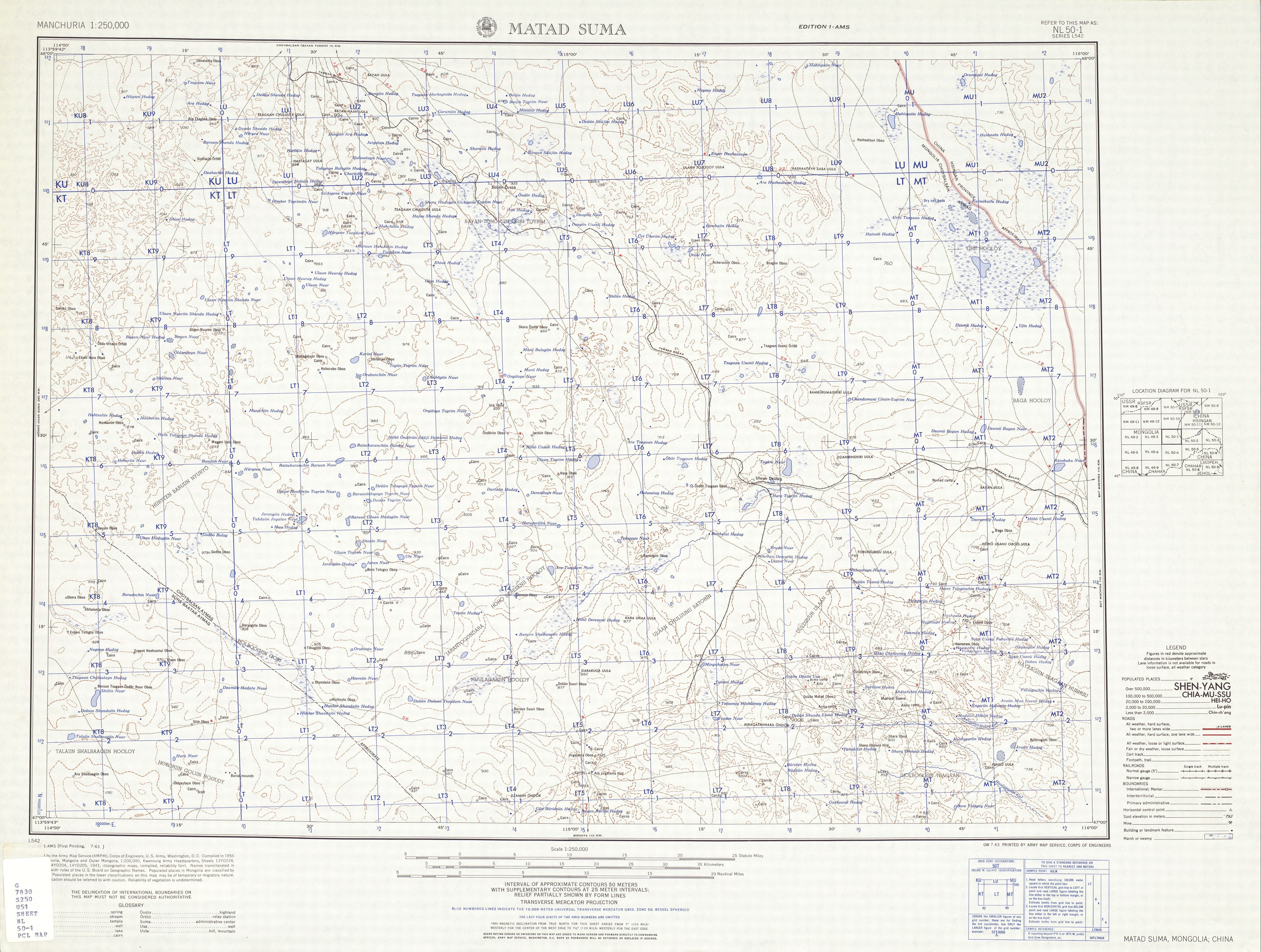 Map of Matad (Matad Suma) area, Mongolia